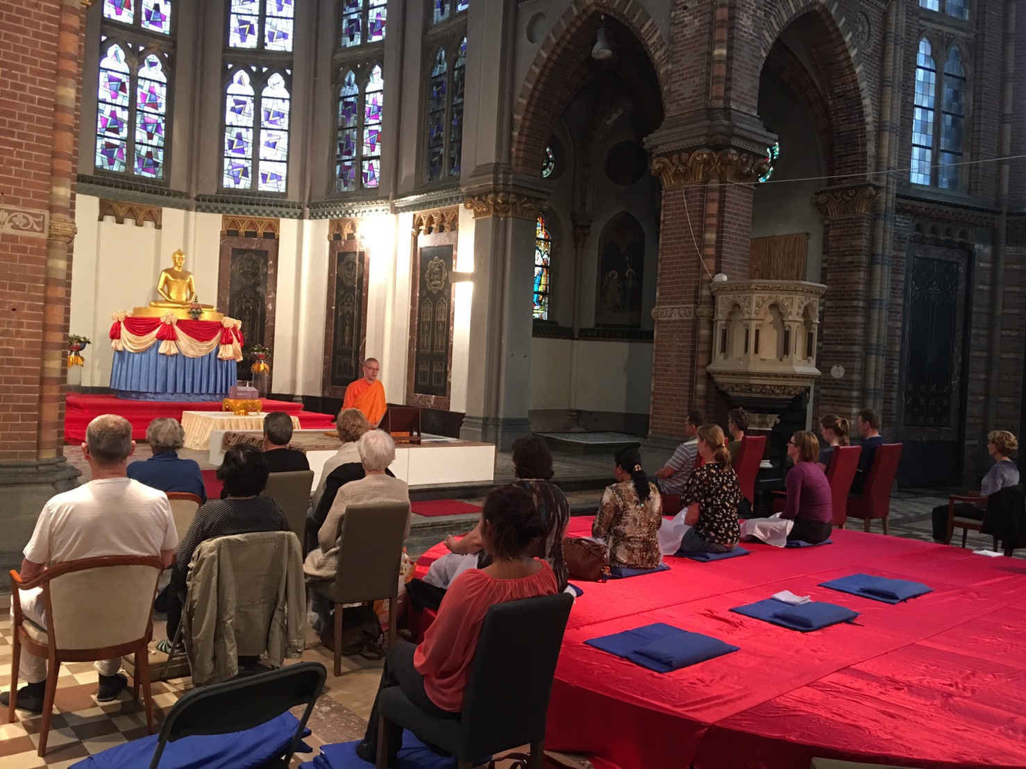 Meditatieavond in Dhammakaya Nederland